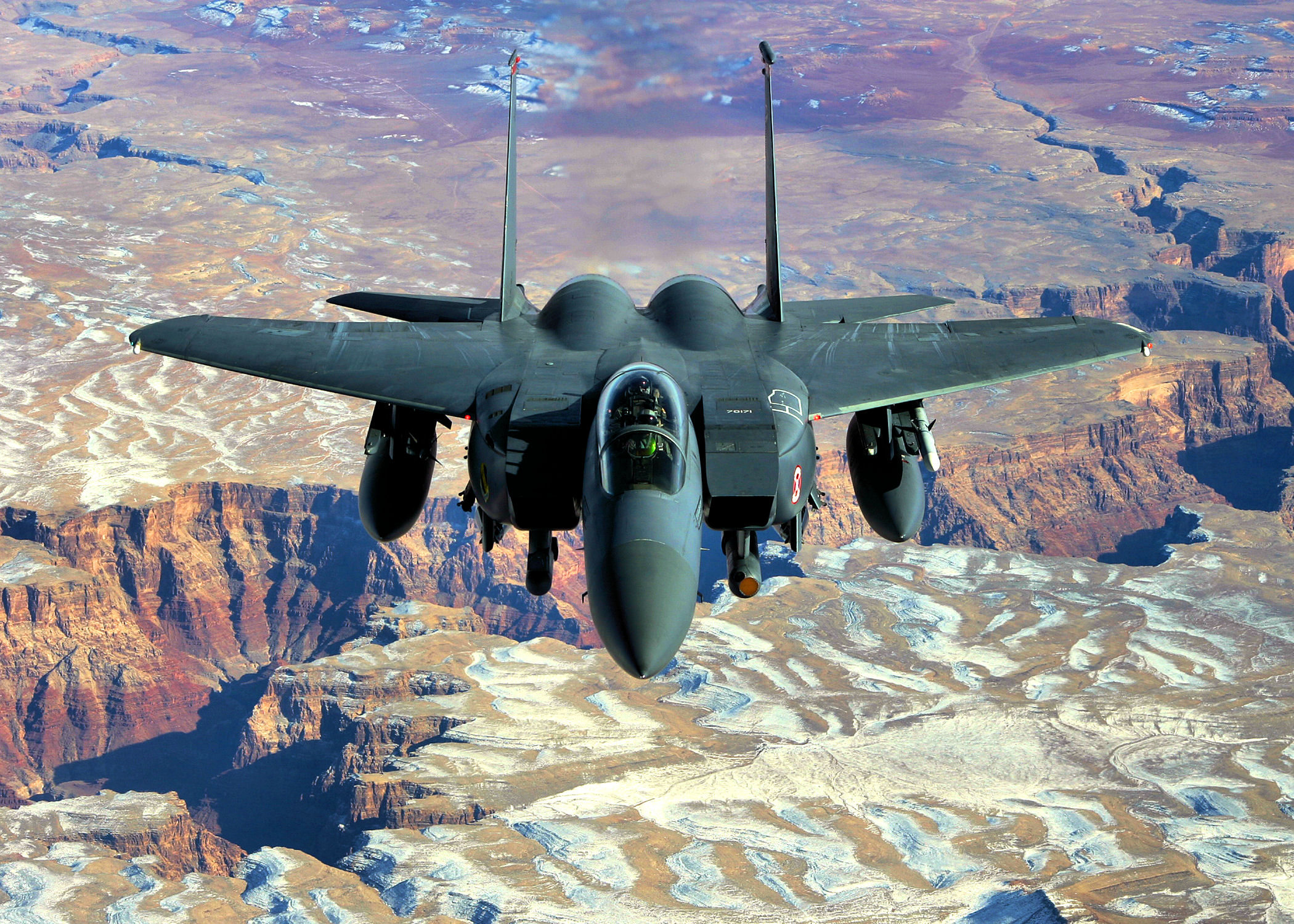 Lieutenant Colonel Jeannie Leavitt, 333rd Fighter Squadron commander, soars over the Grand Canyon.